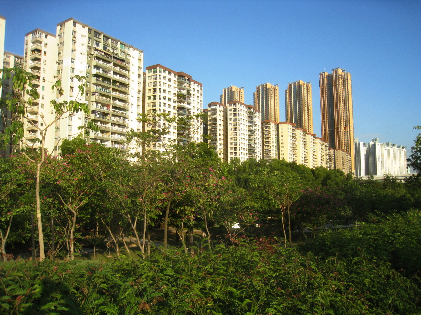 Mei Foo Sun Chuen Phase 2&3